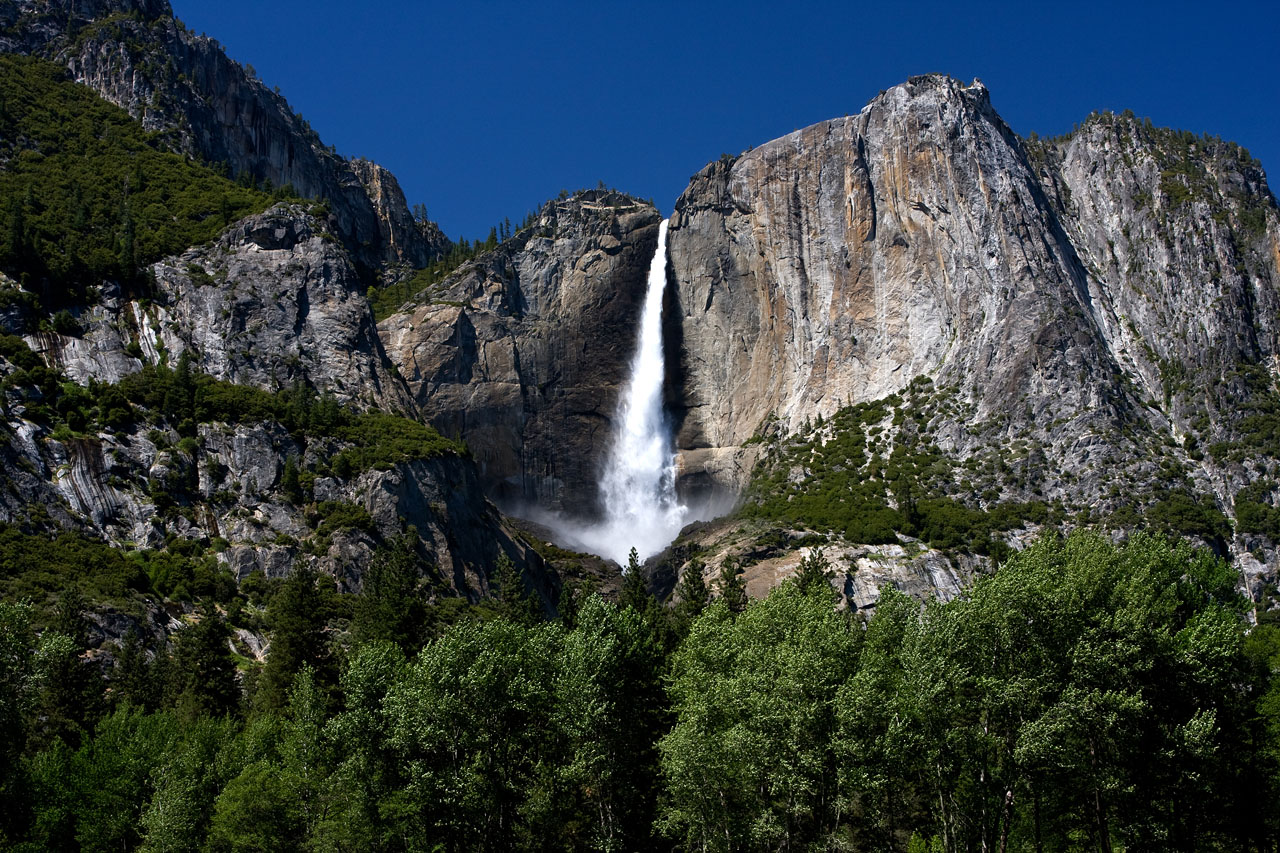 Upper Yosemite Fall in Yosemite Valley, California USA.